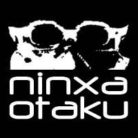 The Symbol and current logo of Ninxa Otaku